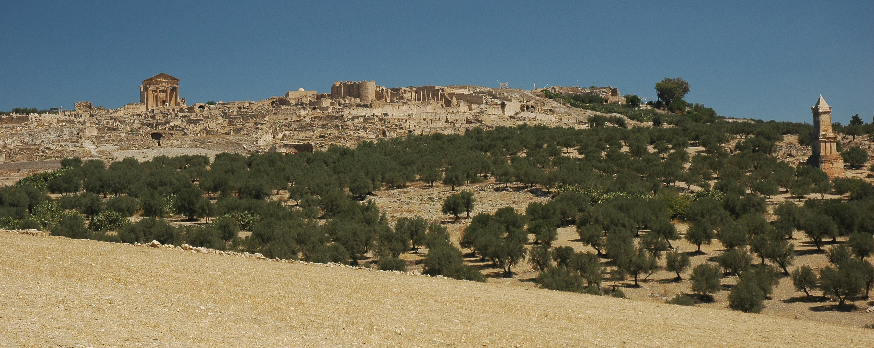 Dougga in Tunisia